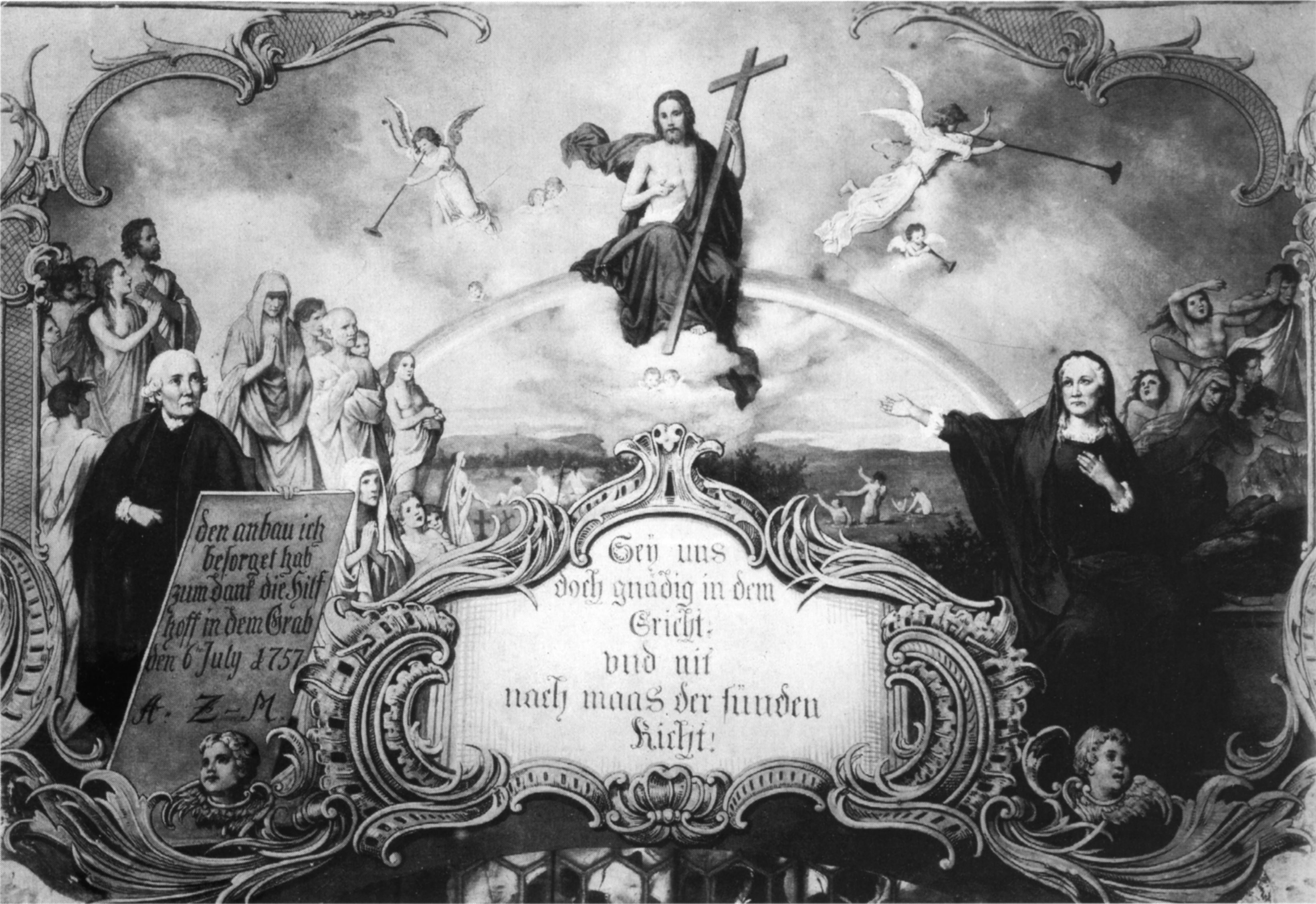 Painting, destroyed in Second World War, at St. Michael's Chapel of Alter Friedhof in Freiburg im Breisgau, Germany, showing donator, AD 1757